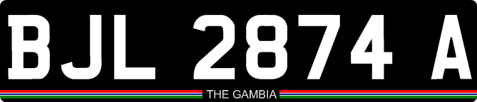 License plate from Gambia